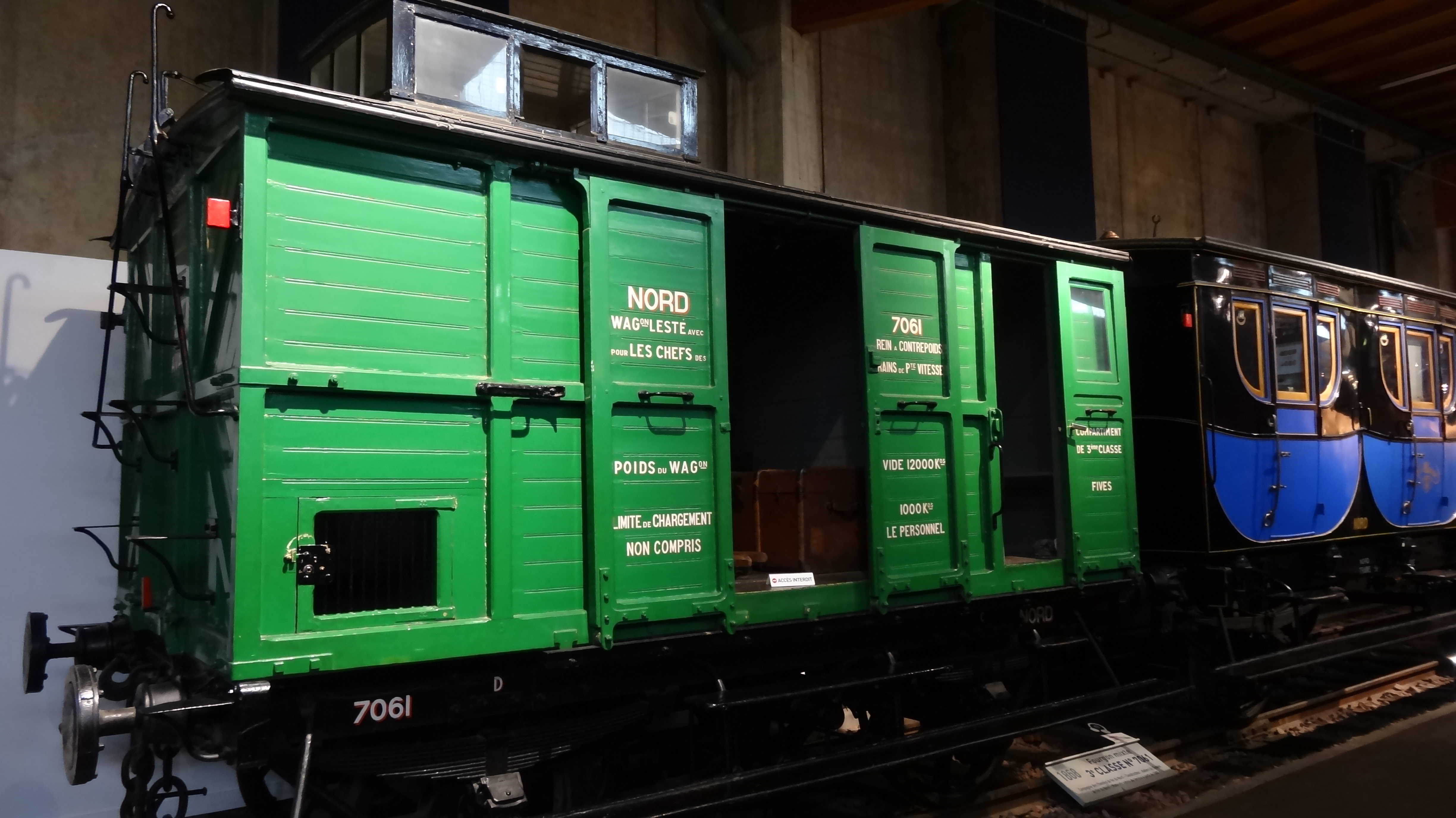 Brake van Nord 7061 with 3rd class compartment, in the Cité du train, Mulhouse.